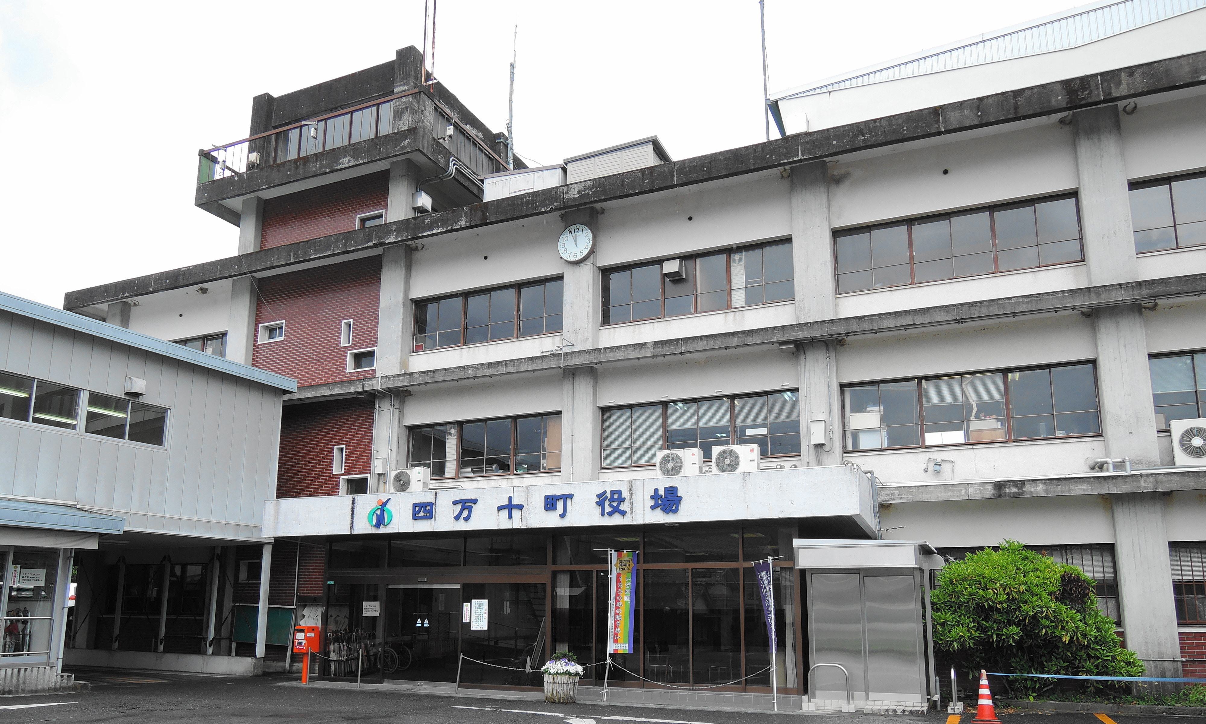 Shimanto town hall,Kochi prefecture,Japan